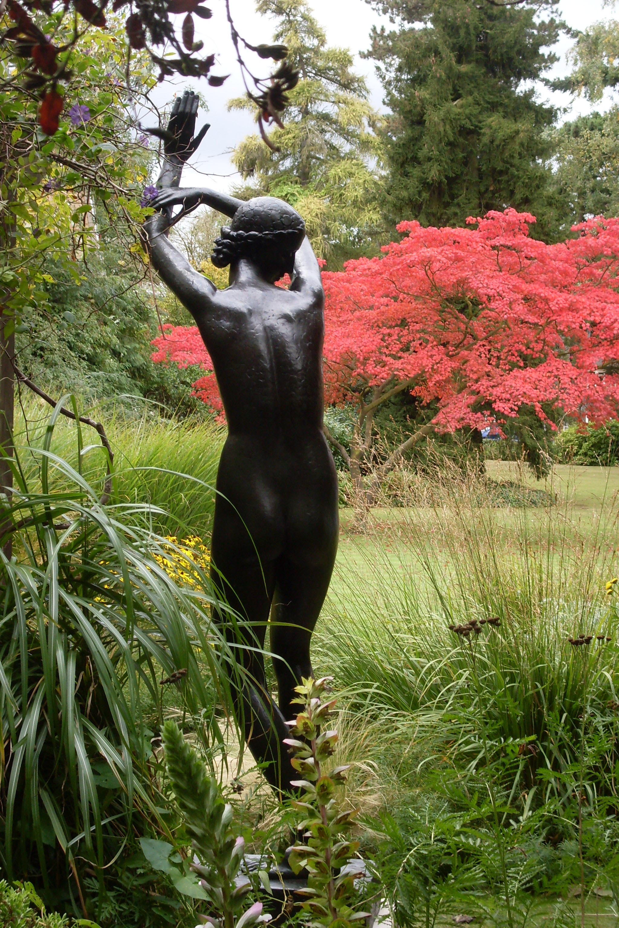 Cheslyn Gardens, Watford, Hertfordshire, UK.